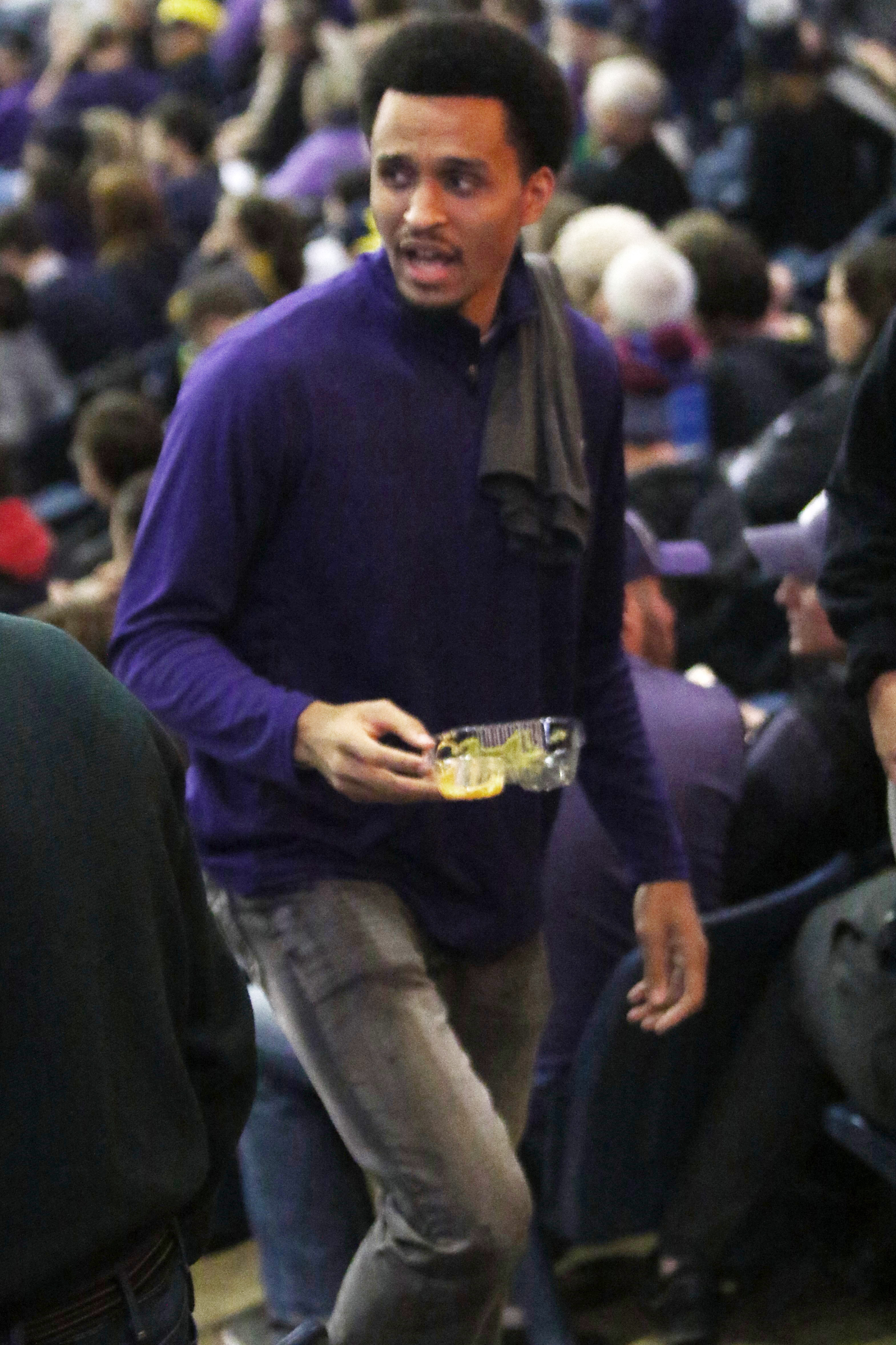 Reggie Hearn at Allstate Arena